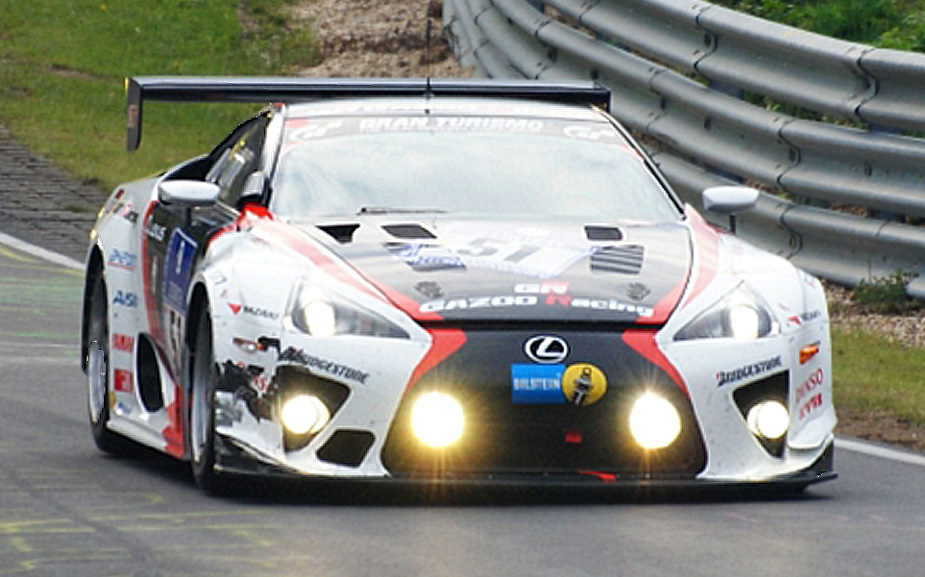 BMW M3 E92 behind nr. 50 Lexus LF-A by Gazoo Racing, Japan